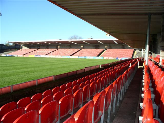 Picture of Turner's Cross football stadium The stand was completed by the M.F.A., who rent the ground to Cork City, soon after Coughlan took over the club